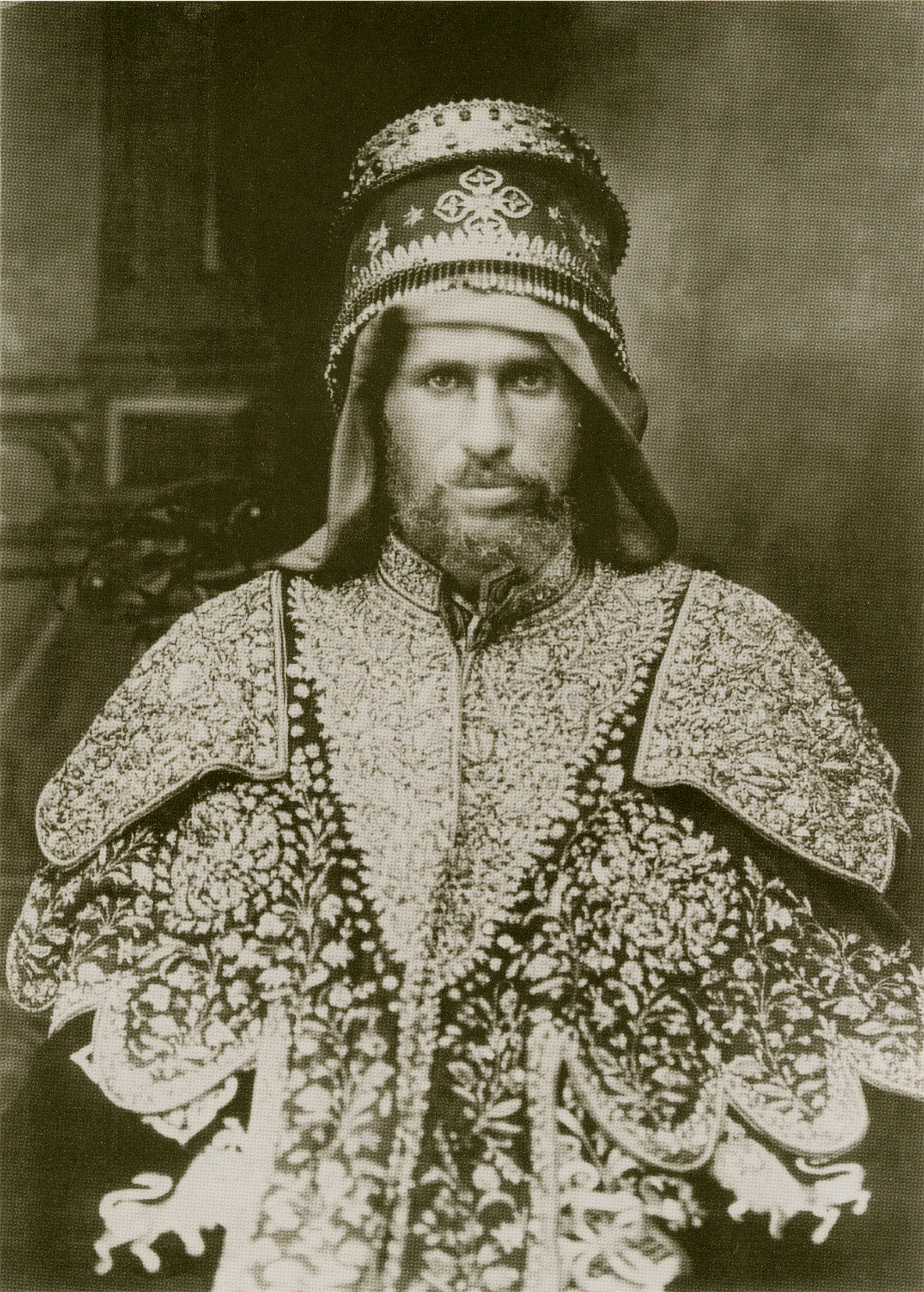 Negus Tekle Haymanot of Gojjam, King of Gojjam (1881-1901) under Emperor Menelik II